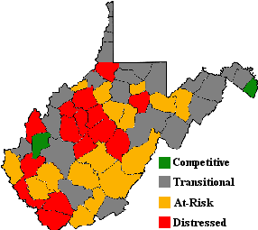 Map showing the ARC economic designations for the counties of the U.S. state of West Virginia. The ARC gives each county one of five designations: "Distressed" (the most economically endangered), "At-Risk," "Transitional," "Competitive," and "Attainment" ("attainment" meaning the county is at least on par with national averages). The data is based on three-year unemployment, income per capita, and poverty rate. No counties in West Virginia were given the "Attainment" designation, and thus it is not listed on the map. Data for this map obtained 2000-2003.